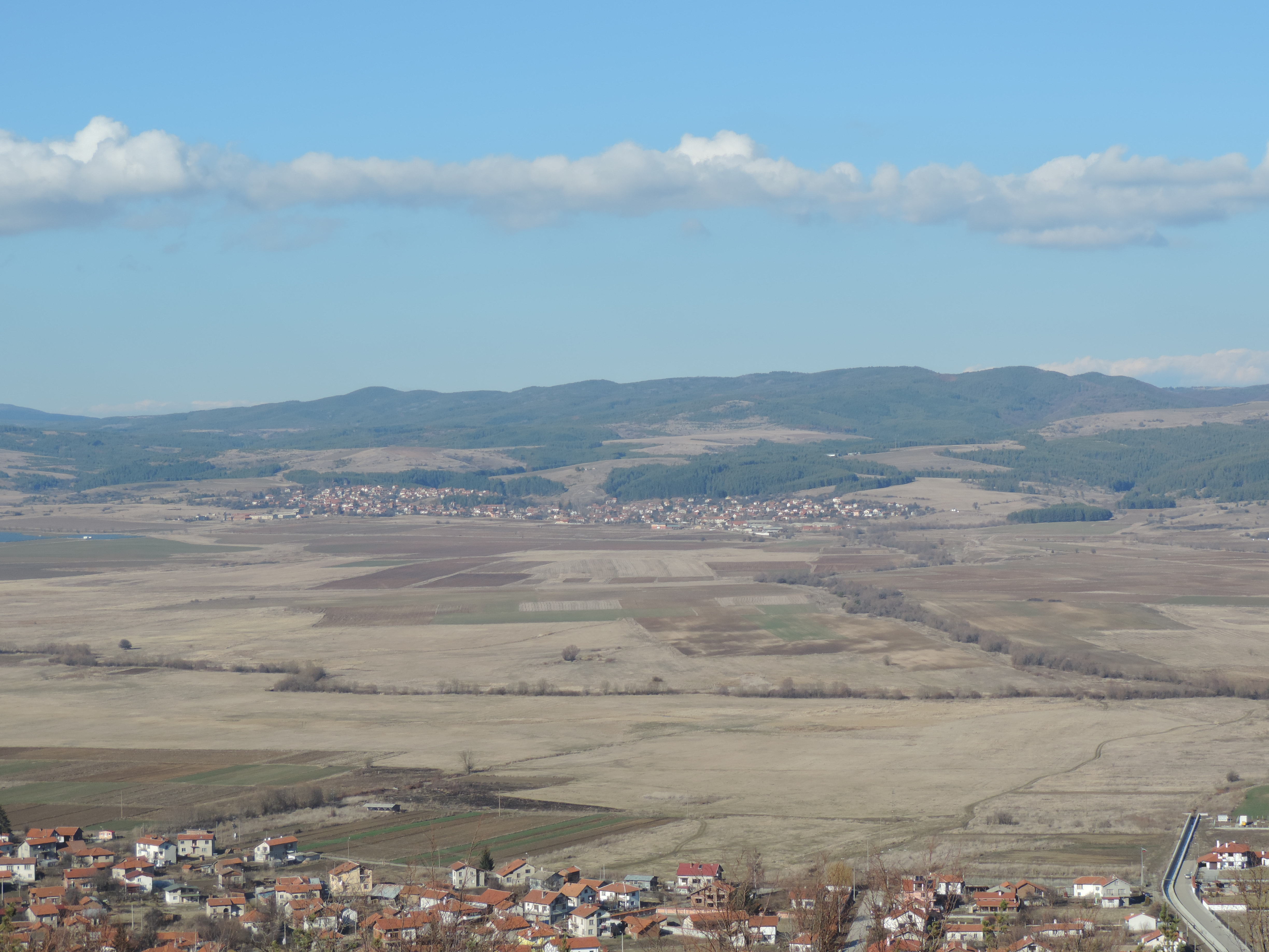 Protected locality Palakaria in Bulgaria – the valley between mountain Vitosha and Rila. To the front: village Belchin, to the rear: village Relyovo